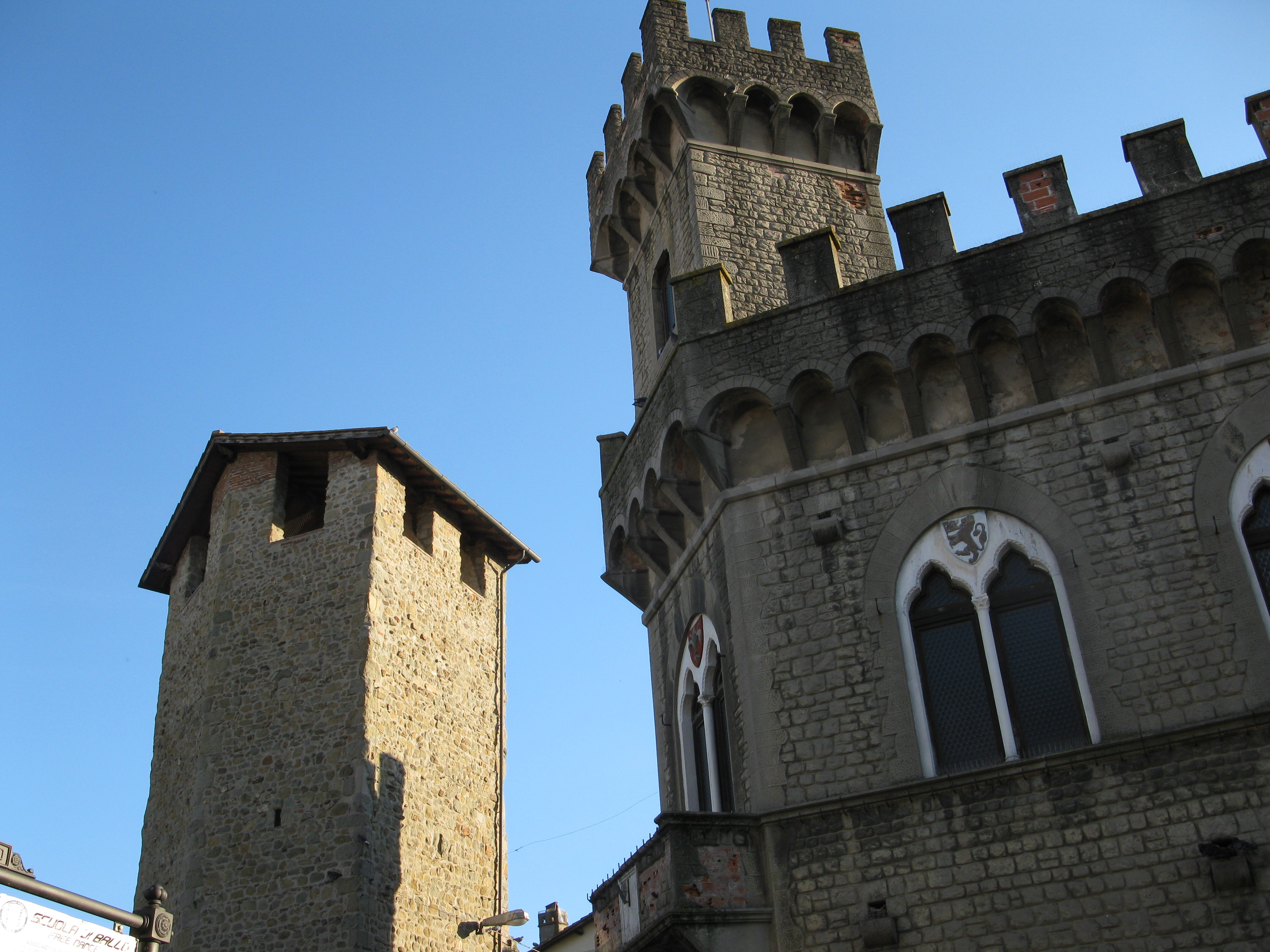 The old walls of Figline Valdarno